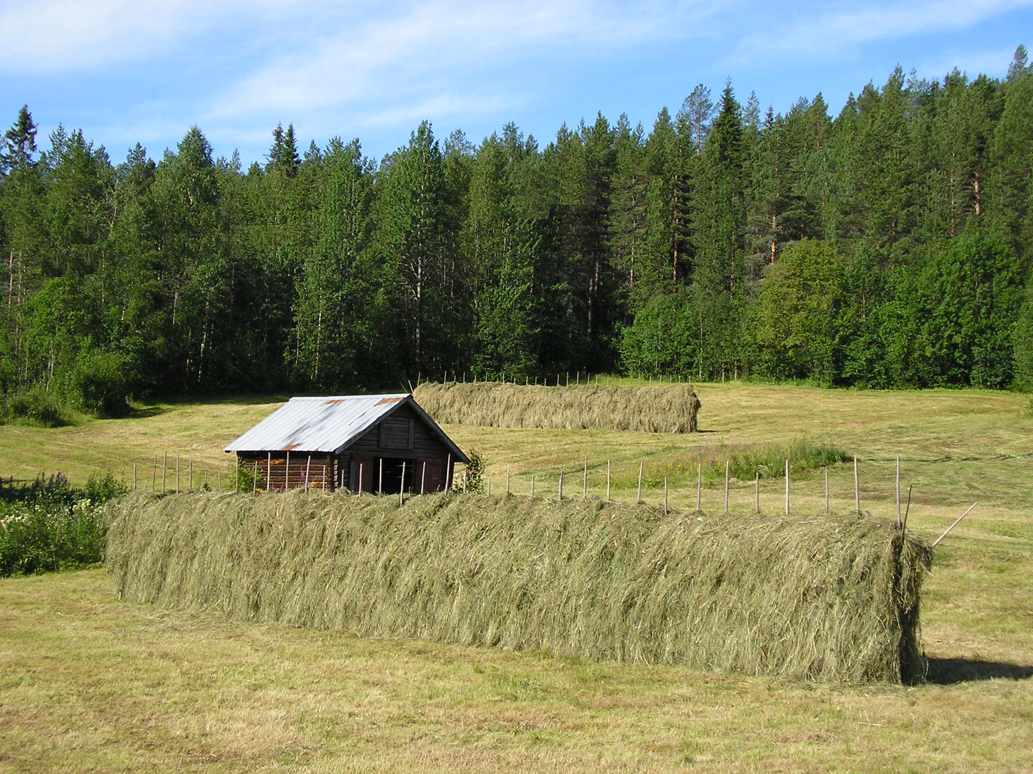 Heinärakenus